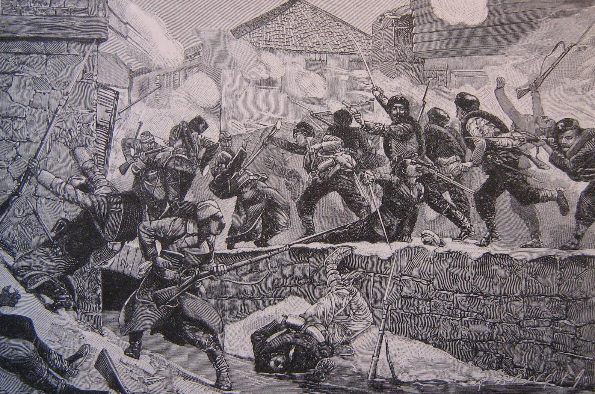 Bulgarian troops storm Pirot at the 1885 Battle of Pirot